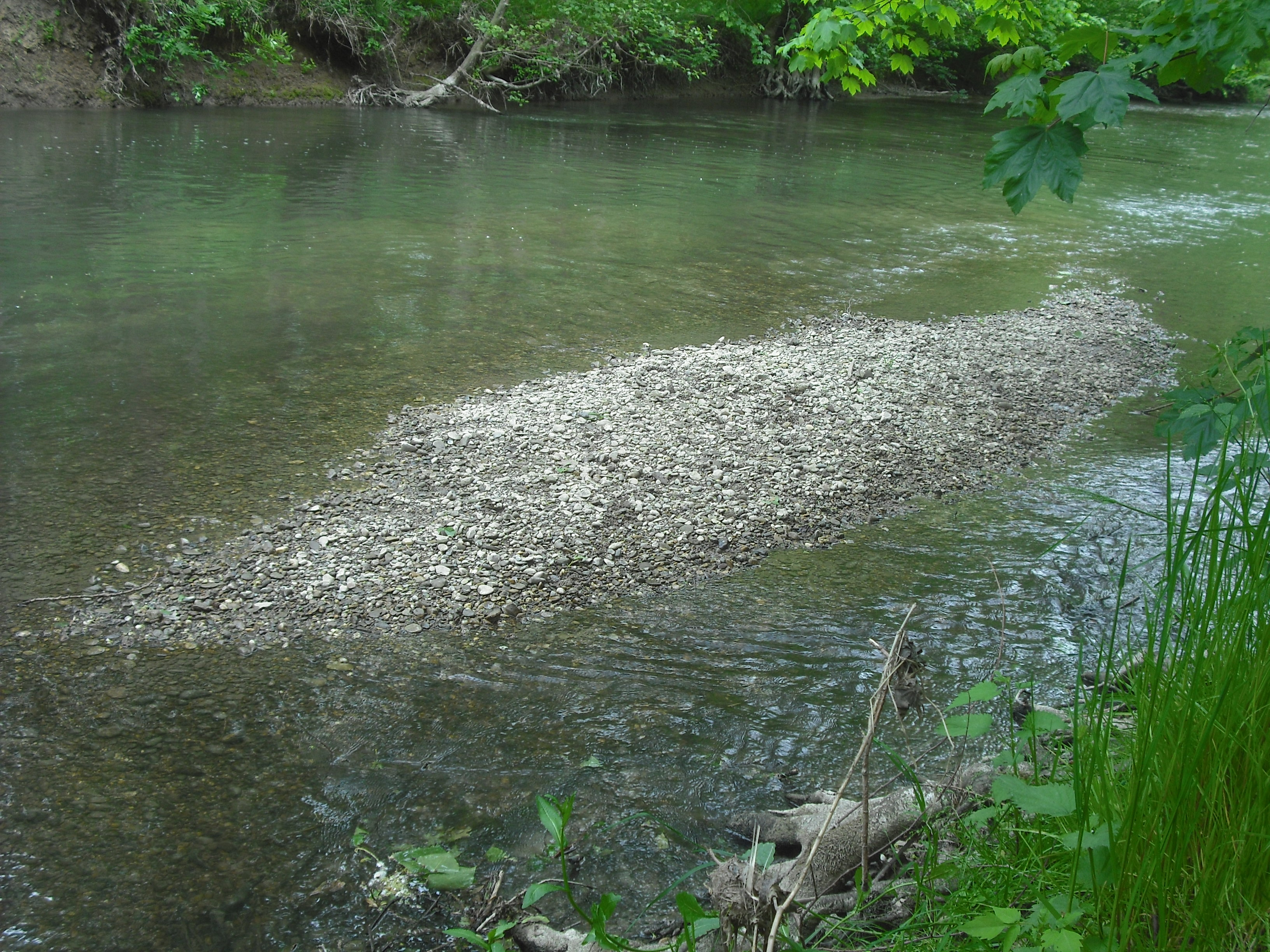 Banc de galets dans l'Oberriedgraben, Sélestat, France.